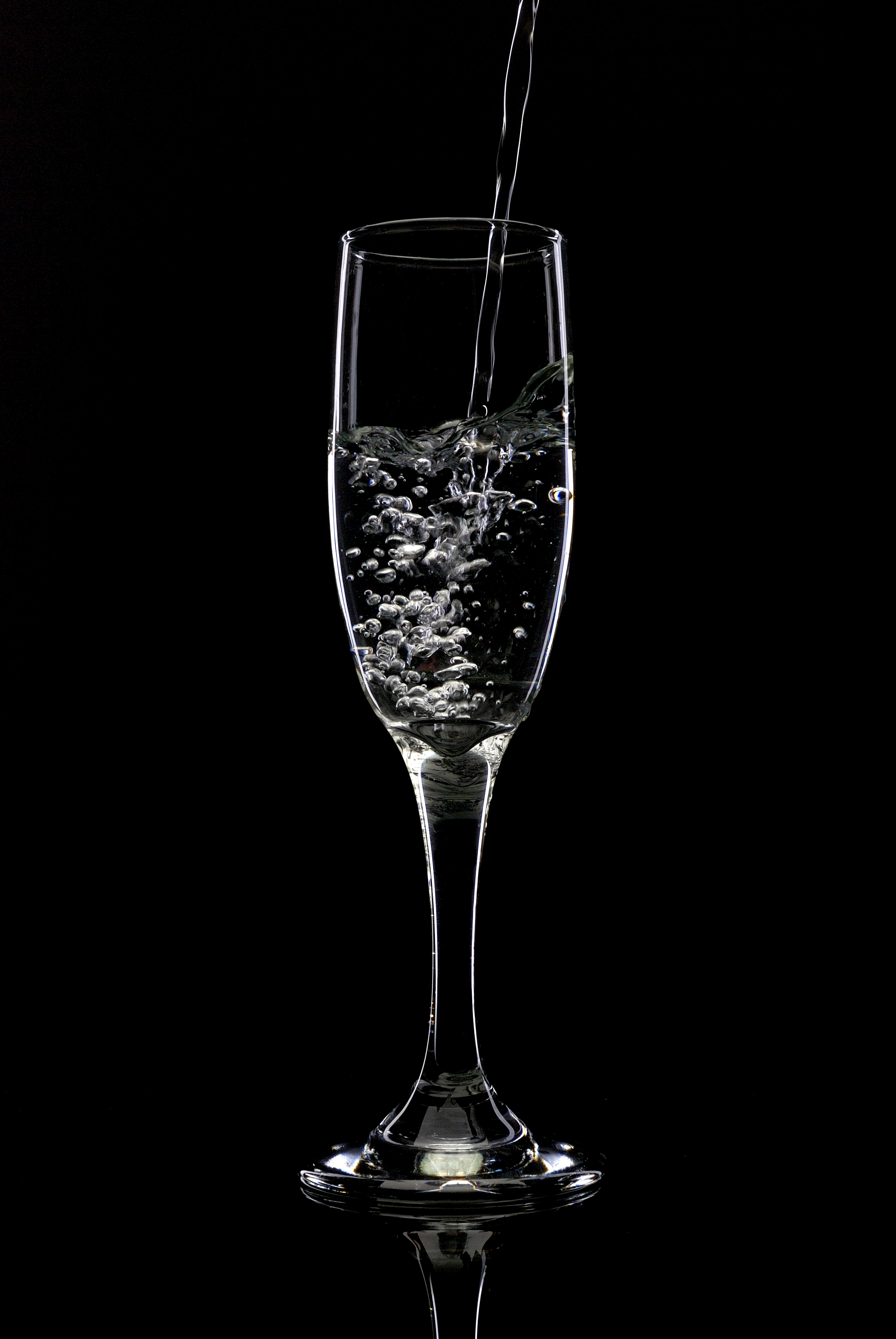 Strobist info: (also see graphic below in comments) the base is a piece of black opaque glass with a black foam core background. Light from a strobe is passing through a white diffuser (white sheet) and coming from the sides of the foam core on the left and right. Foam core gobos also on the left and right to let just a sliver of light on both sides. I was able to eliminate 99% of the front reflection, fixed a tiny bit in Photoshop.